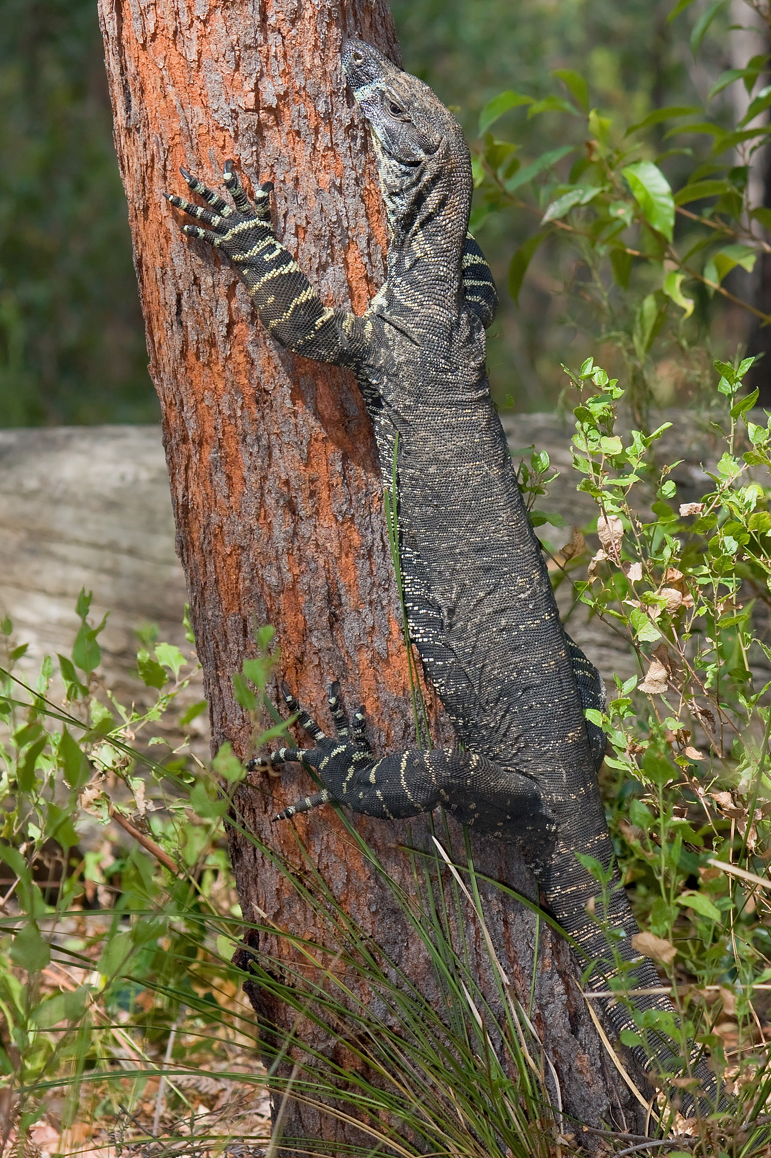 Lace Monitor (Varanus varius), Croajingolong National Park, Victoria, Australia